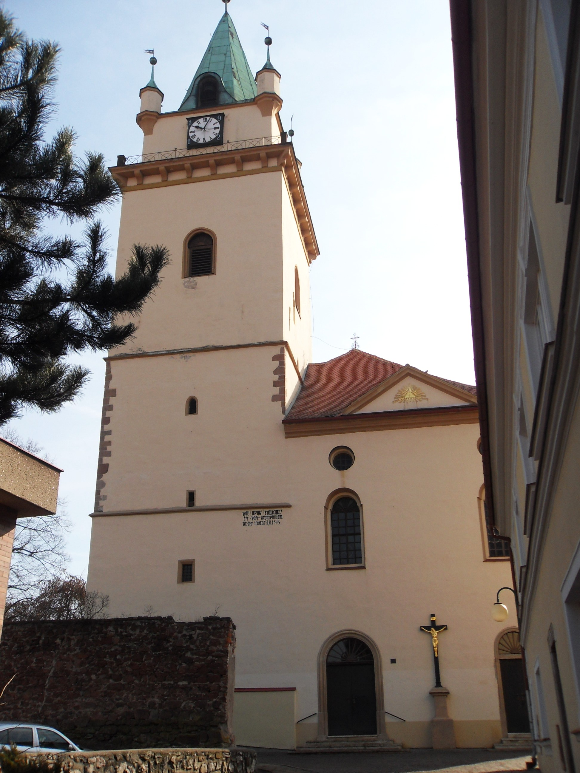 Church of Saint Wenceslaus, Tišnov, Czech Republic